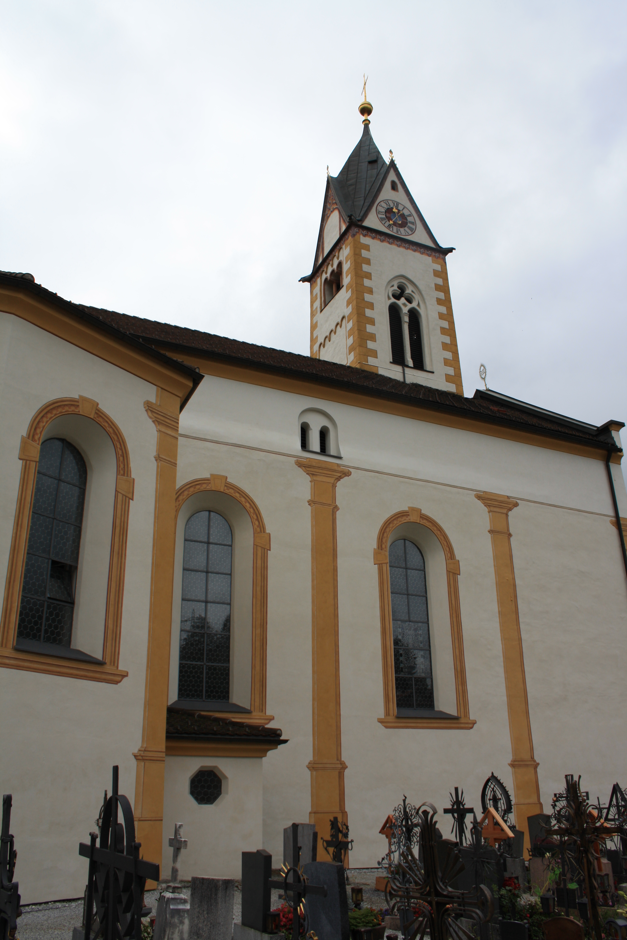 Austria, Tyrol (state), Pfons, Mariä Himmelfahrt.